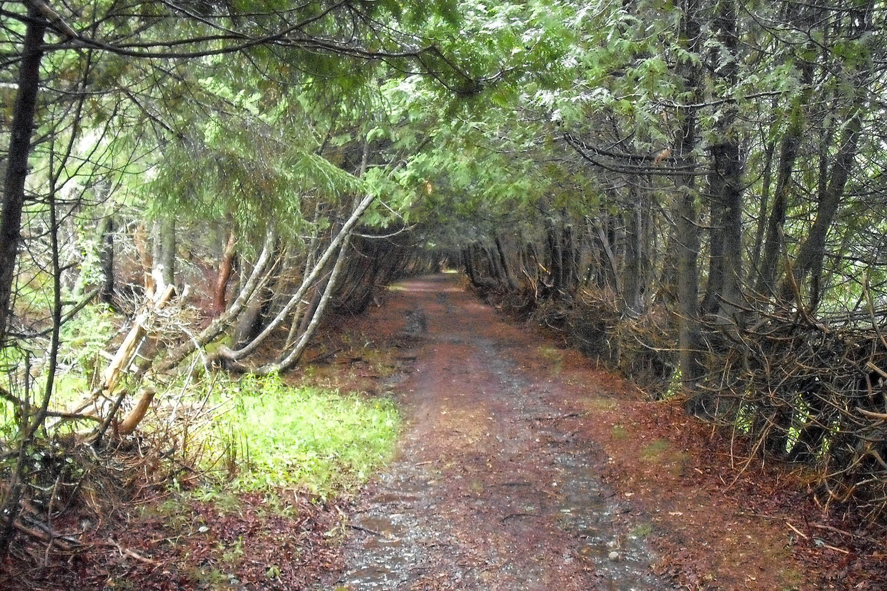 Trail at Minister's Island, St. Andrews (NB)